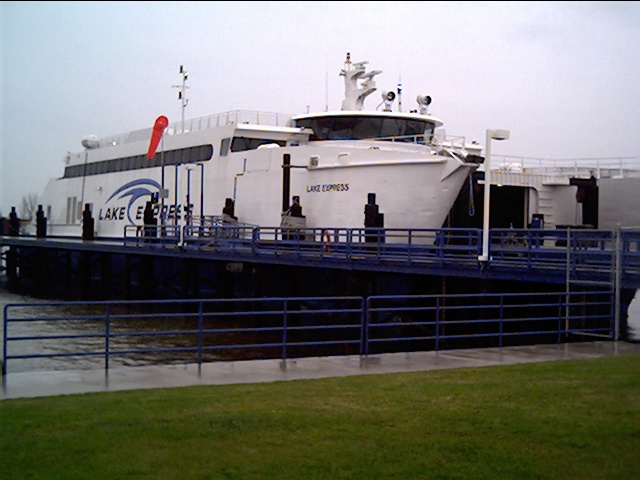 Lake Express at her slip in Muskegon, Michigan. The ferry transports across Lake Michigan between Michigan and Wisconsin.